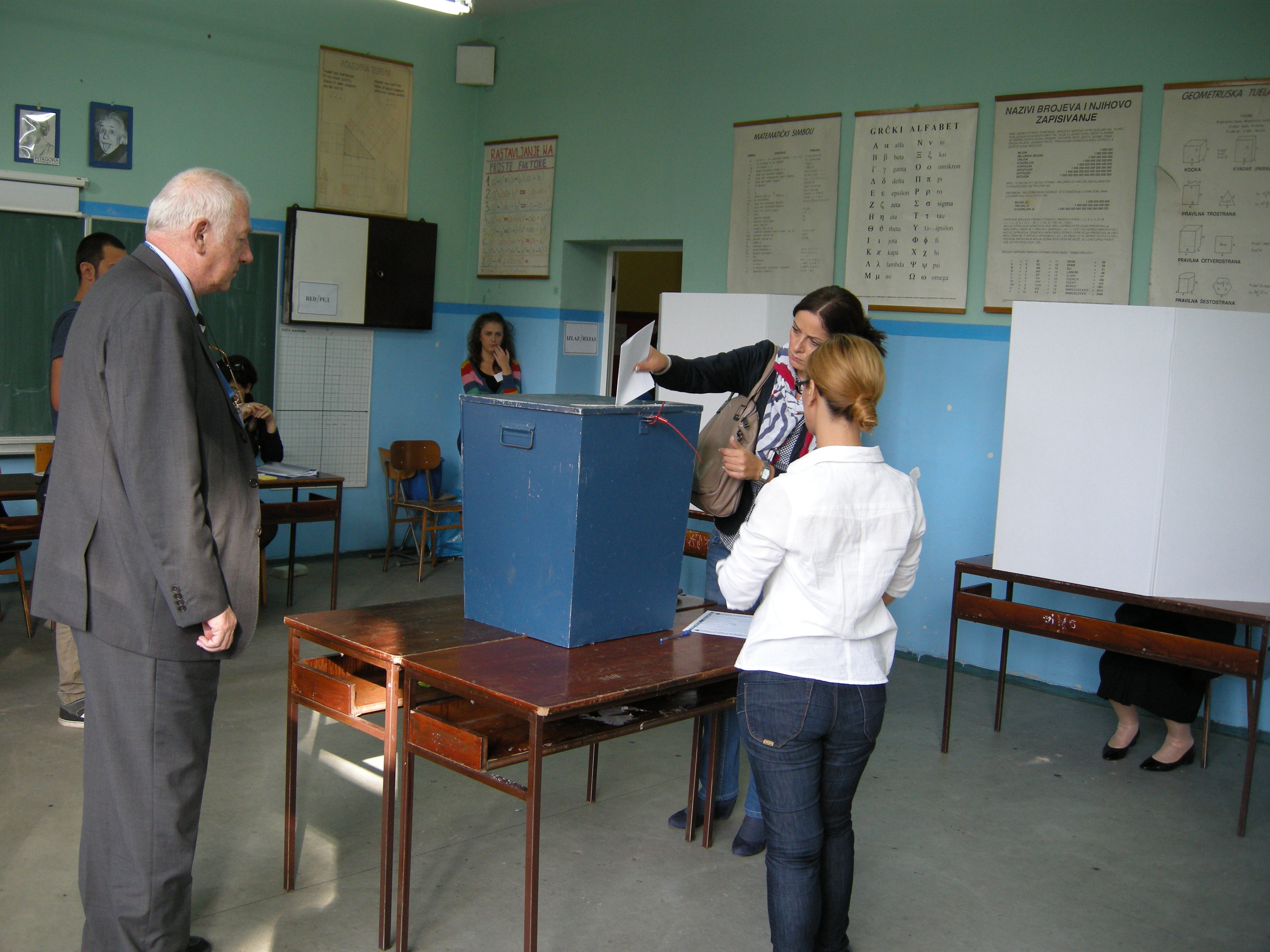 Roberto Battelli, the OSCE Special Co-ordinator and leader of the short-term OSCE observer mission (left) observes at a polling station in Sarajevo, 12 Oct. 2014